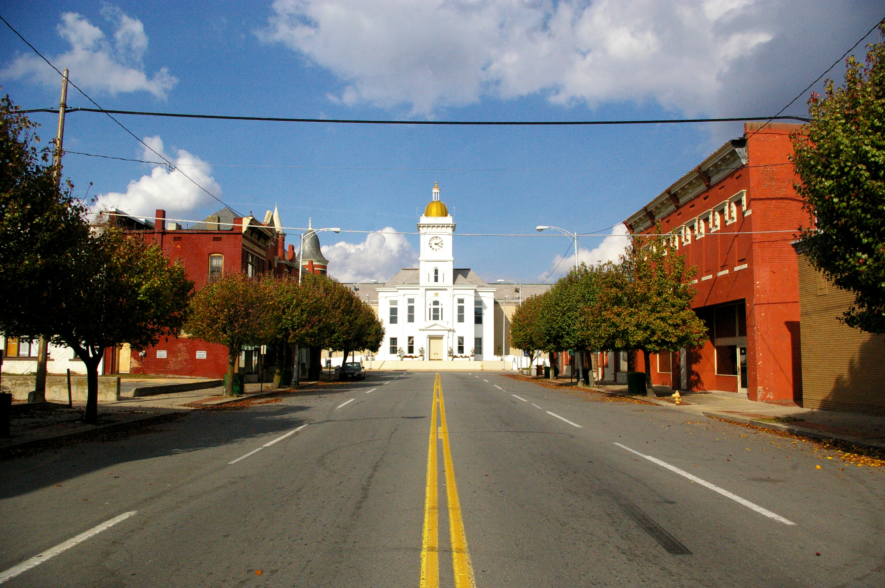 Looking down Main Street in Pine Bluff, Arkansas, USA with the Jefferson County Courthouse in the background.